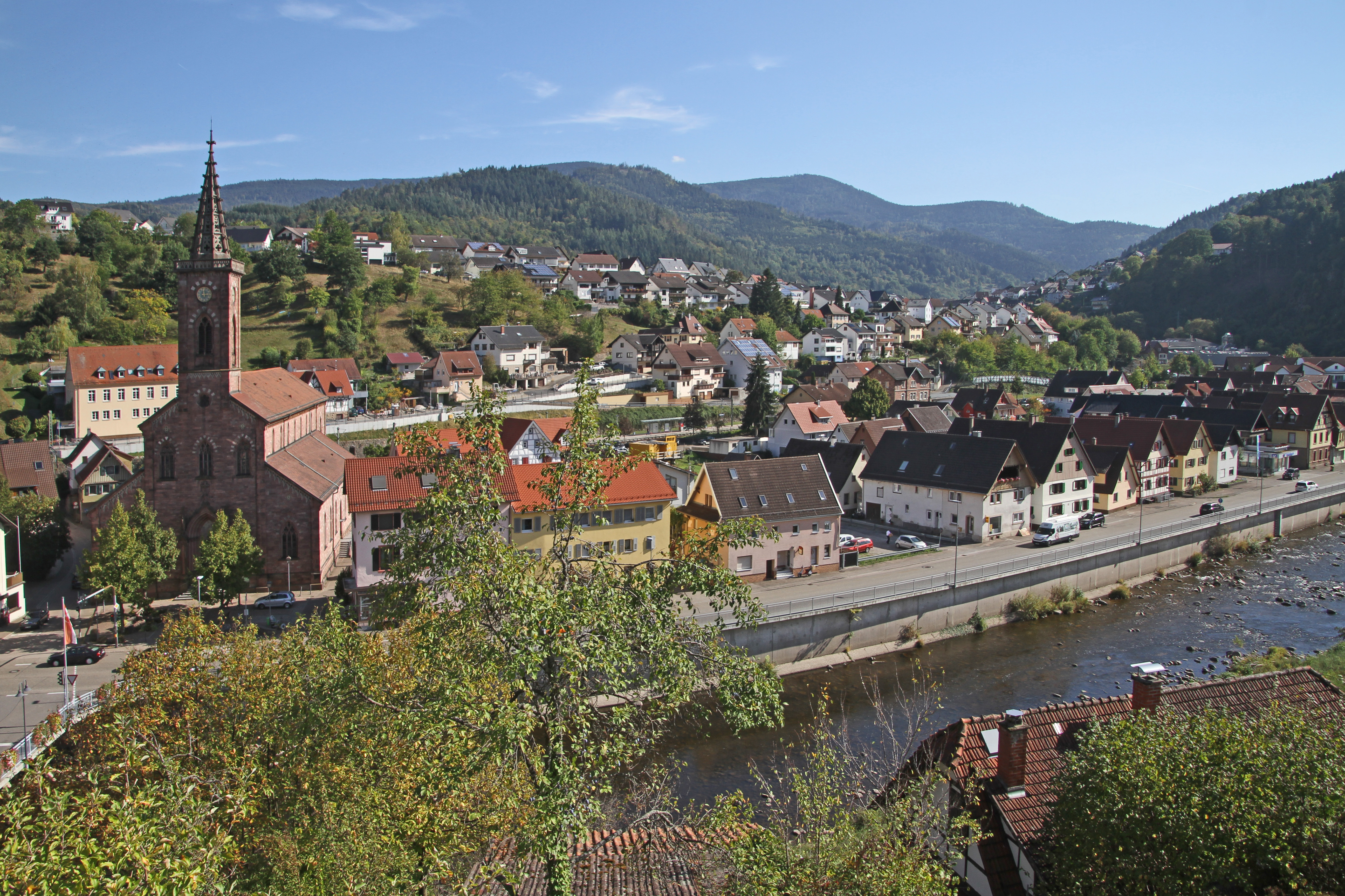 Church of Saint Wendelin in Weisenbach.